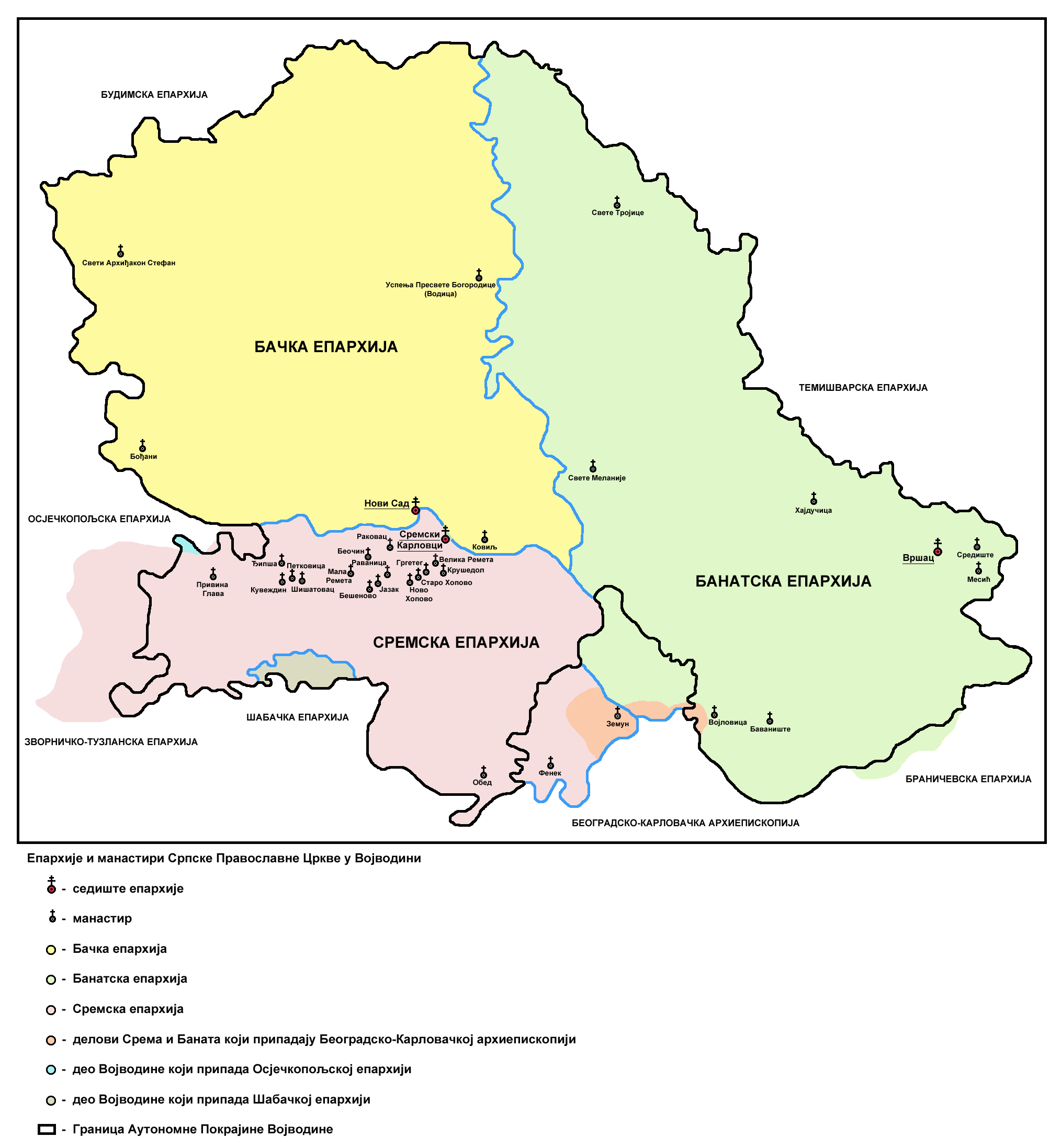 Eparchies and monasteries of Serbian Orthodox Church in Vojvodina.